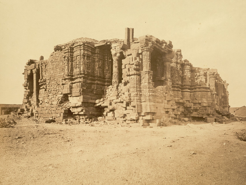 "The Somanatha Temple from the west, Somnath (Prabhas Patan)." Photograph of the Somanatha Temple at Somnath, Prabhas Patan, in Gujarat, from the west. Photograph taken in c. 1869 by D.H. Sykes, from the Archaeological Survey of India. Prabhas Patan is an important Hindu pilgrimage centre, considered to be one of the sights of Shiva's Jyotirlingas. The Somanatha Temple was originally founded in the 10th century on the shore of the Arabian Sea. The wealth of the temple attracted many raiders, such as Mahmud of Ghazni who destroyed the sanctuary in 1026. Later the temple was rebuilt during the Solanki period by Kumarapala (r.1143-72). The description below reflects the state of the building when this photograph was taken, as supposed to the current temple building which is a modern reconstruction in the traditional Solanki style. In the report, 'Somanatha and other mediaeval temples in Kathiawad' of 1931, Henry Cousens wrote, “Little now remains of the walls of the temple; they have been, in great measure, rebuilt and pached with rubble to convert the building into a mosque. The great dome, indeed the whole roof and the stumpy minars…are portions of the Muhammadans additions… The great temple, which faces the east, consisted, when entire, of a large central closed hall, or gudhamandapa, with three entrances, each protected with a deep lofty porch, and the shrine – the sanctum sanctorum – which stood upon the west side of the hall, having a broad pradakshina or circumambulatory passage around it...The interior of the temple having being used as a mosque, the Muhammadans...re-erected many of the fallen pillars, roughly rebuilt the dome, and strengthened the cracked lintels with roughly constructed arches, beneath them...”. Oriental and India Office Collection, British Museum. Downloaded from the British Museum Website by user:Fowler&fowler 14:11, 19 March 2007 (UTC)